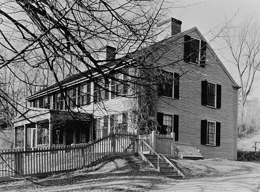 General Benjamin Lincoln House, Hingham (Plymouth County, Massachusetts) (cropped)